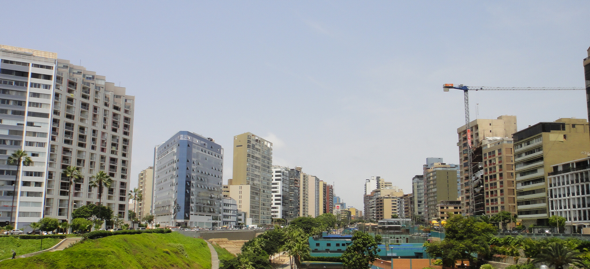 Lima, Peru 2013.